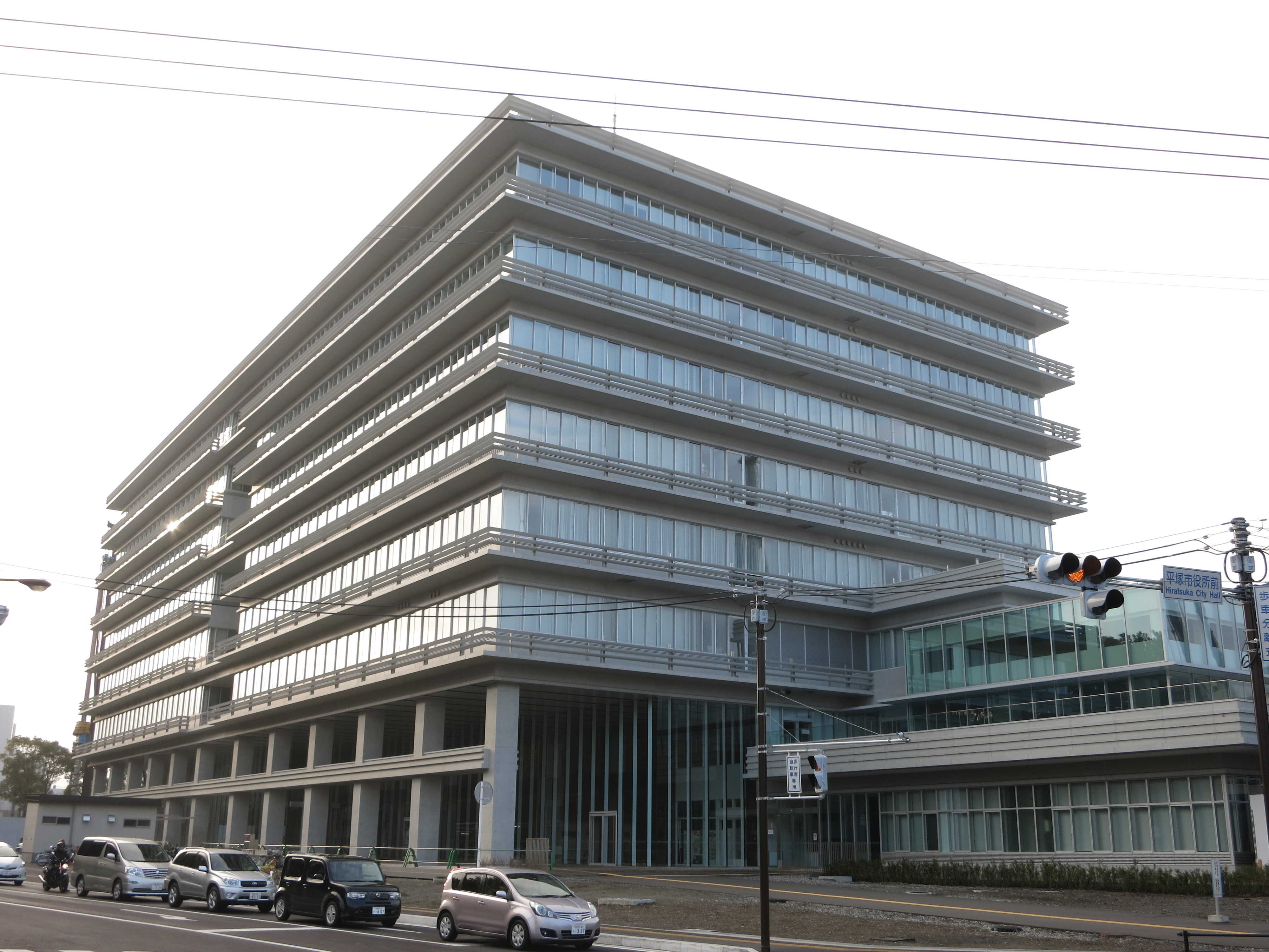 Hiratsuka City Office